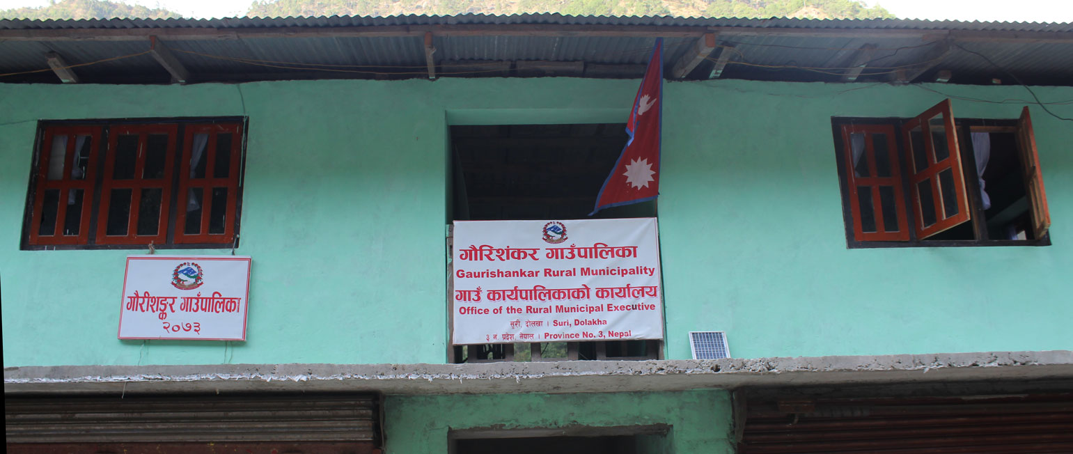 Offices of Gaurishankar Rural Municipality, Province No 3, Nepal.